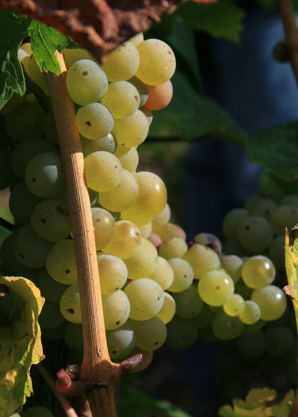 White grapes to be used in the production of the German sparkling wine Sekt.